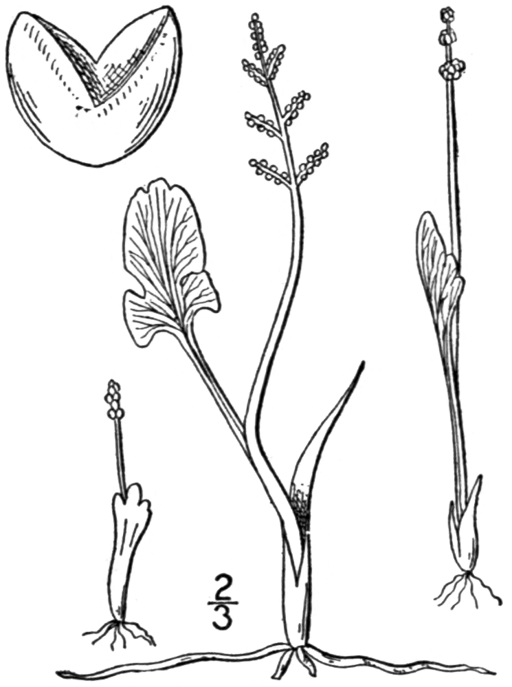 Fig. 4. Botrychium simplex from the second edition of An Illustrated Flora of the Northern United States, Canada and the British Possessions (New York, 1913)